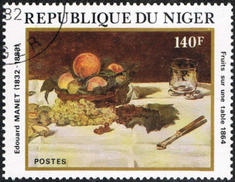 1864 Manet painting on 1982 stamp of Niger.